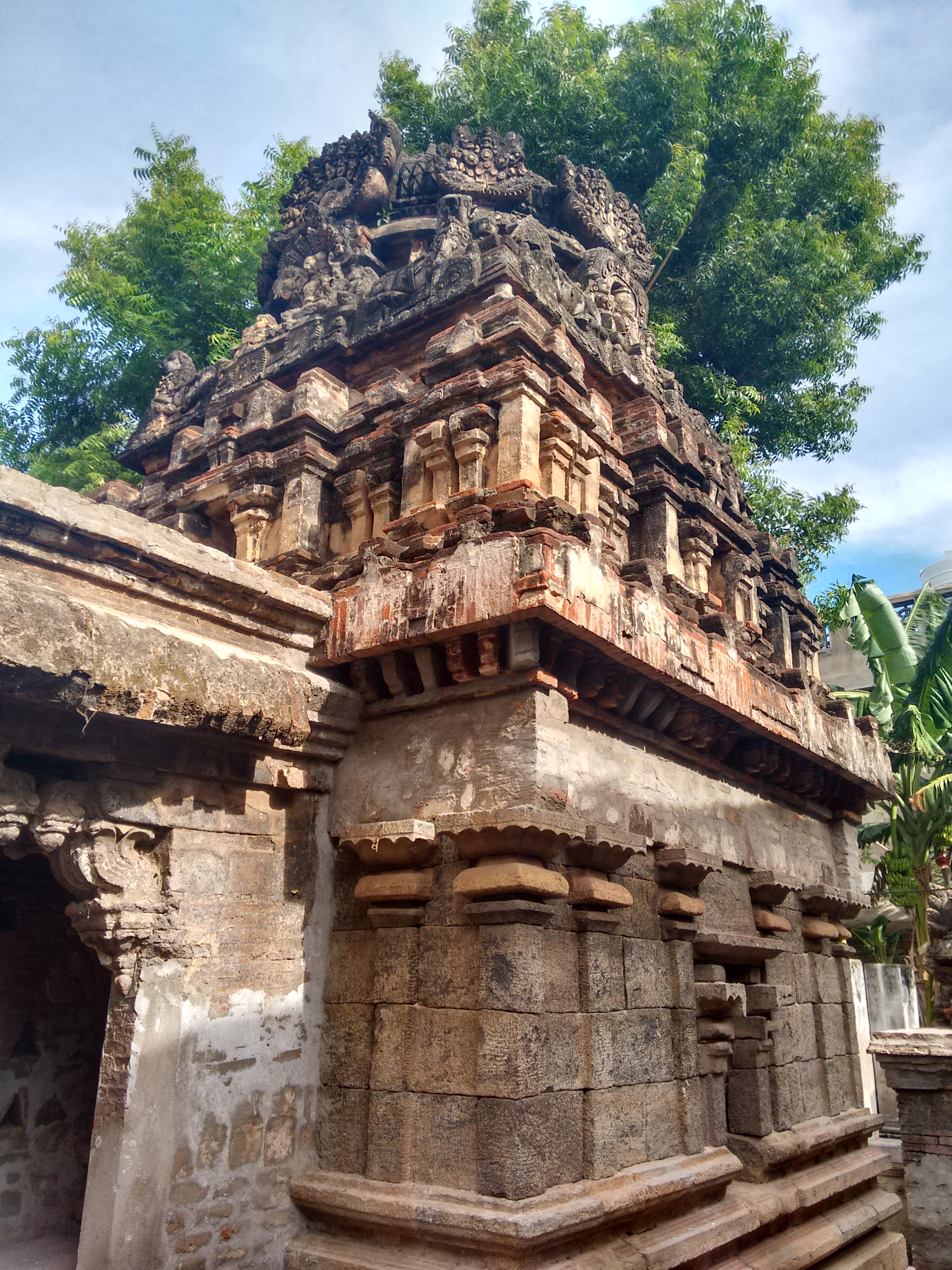 Pettai vinai theertha street visvanathasamy temple1 பேட்டைவினை தீர்த்த தெரு விசுவநாதசுவாமிகோயில்1